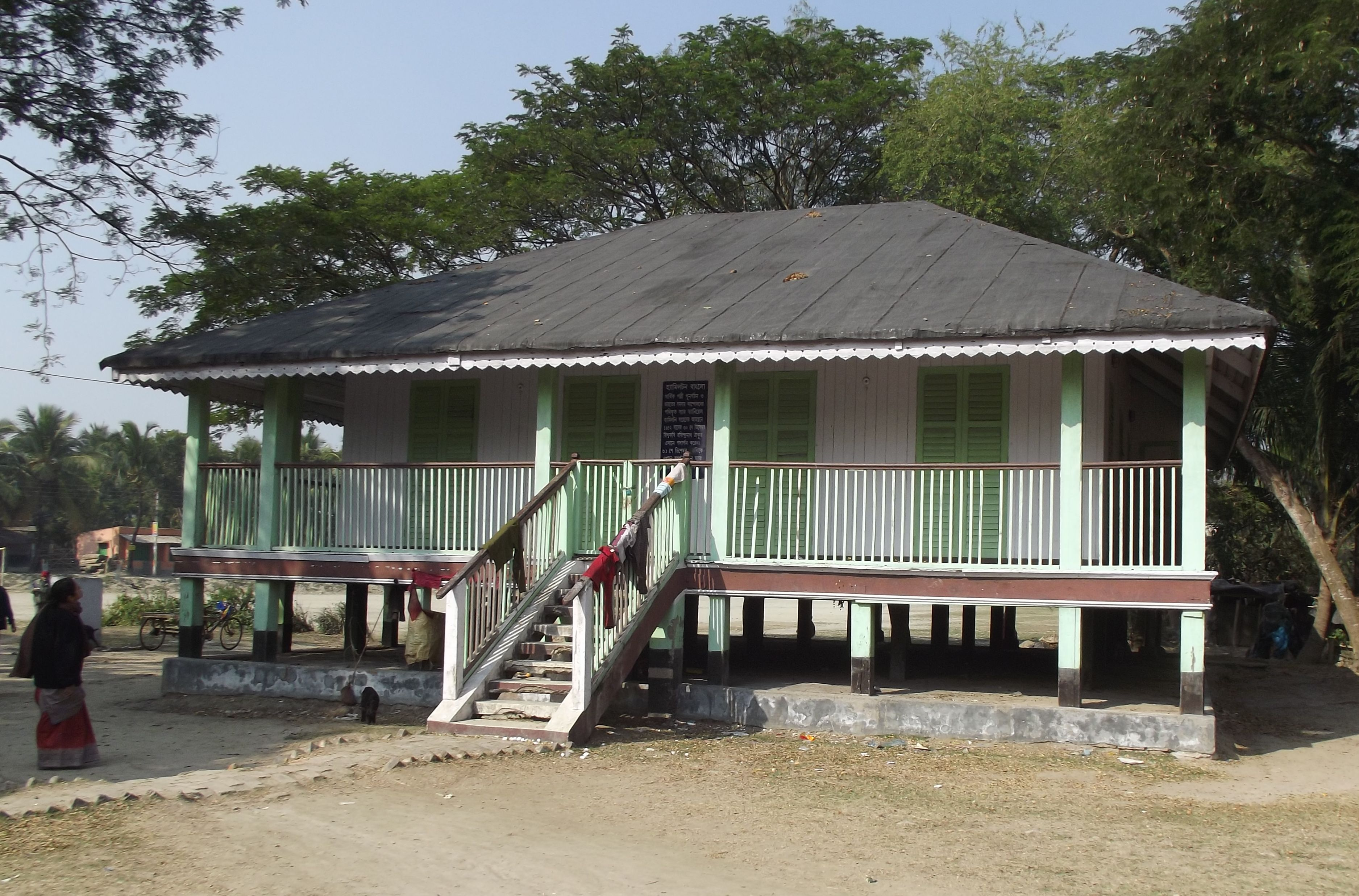 Hamilton's Bungalow, Gosaba, Sunderbon